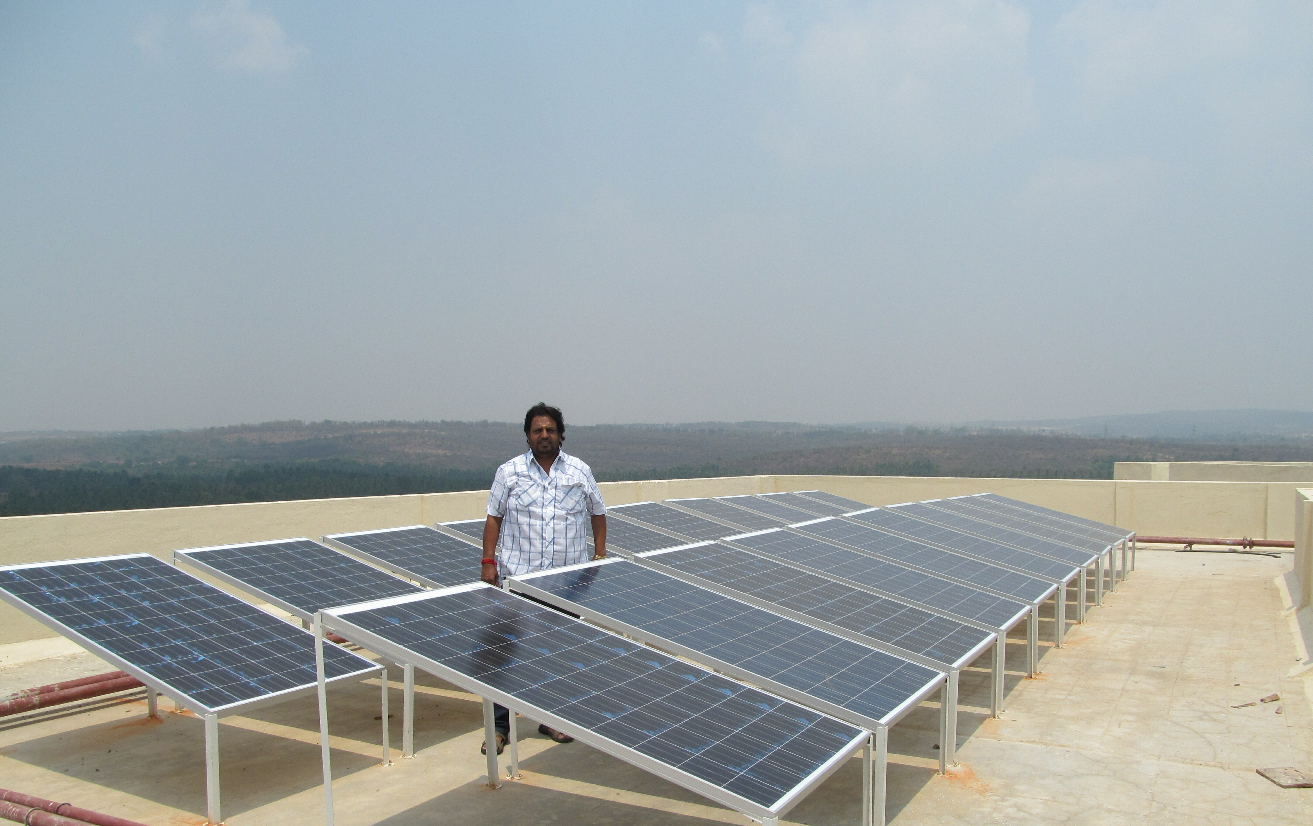 Unidentified male with solar panels